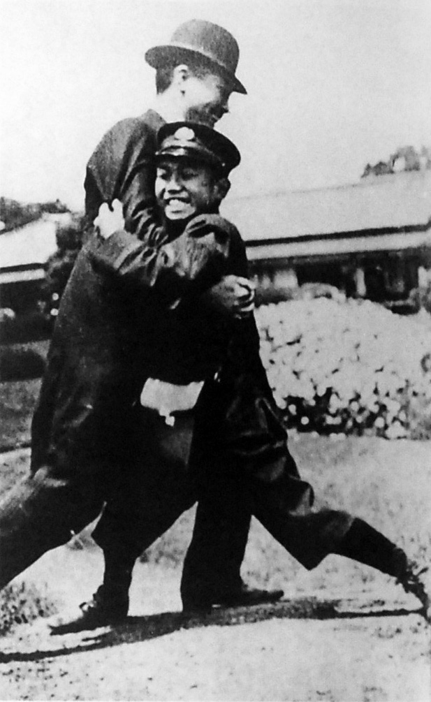 侍従と相撲(Sumō)を取る裕仁親王(Prince Hirohito/Emperor Shōwa)